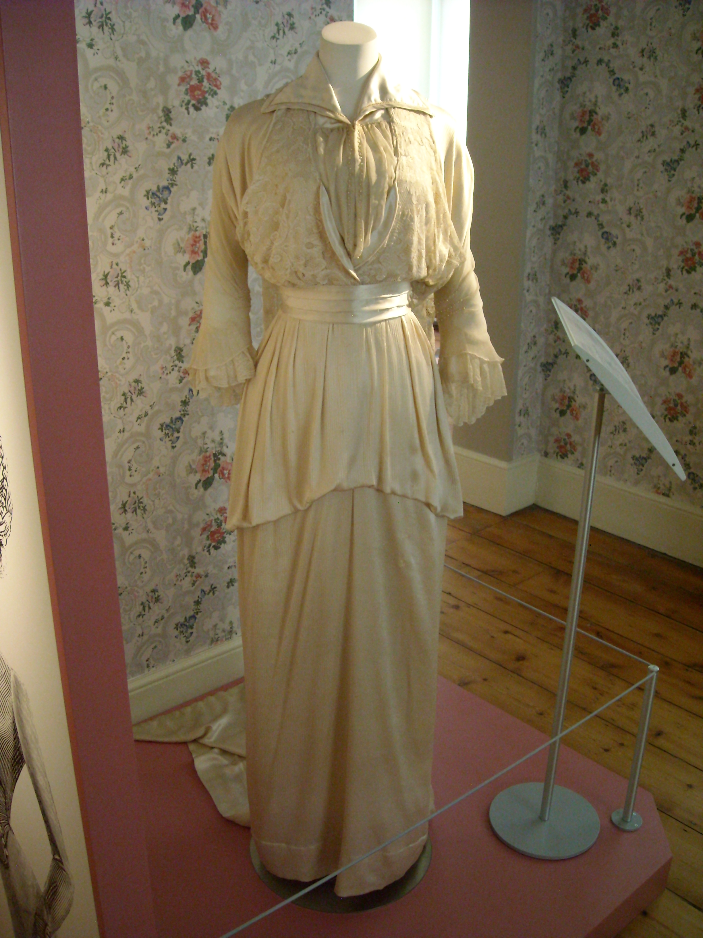 A wedding dress, made around 1910, by dressmaker, Mrs Allan of Tavistock Street, Bedford. Silk satin, silk georgette and silk muslin. On display at The Higgins museum and gallery, Bedford.